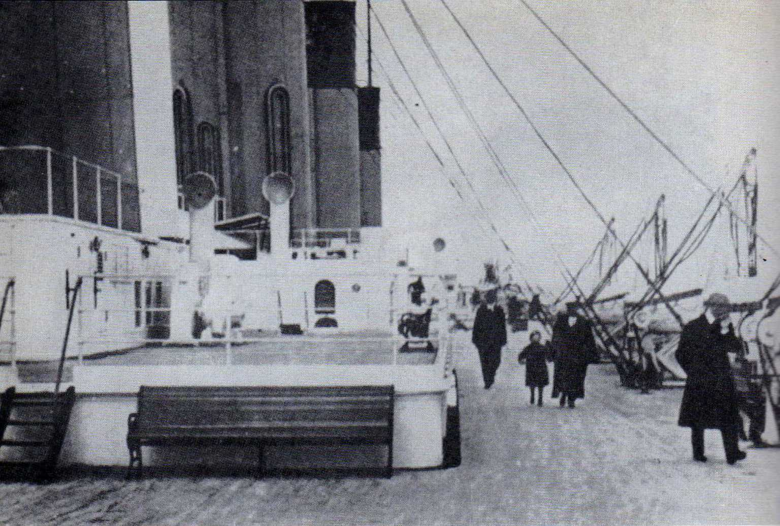 "RMS Titanic"